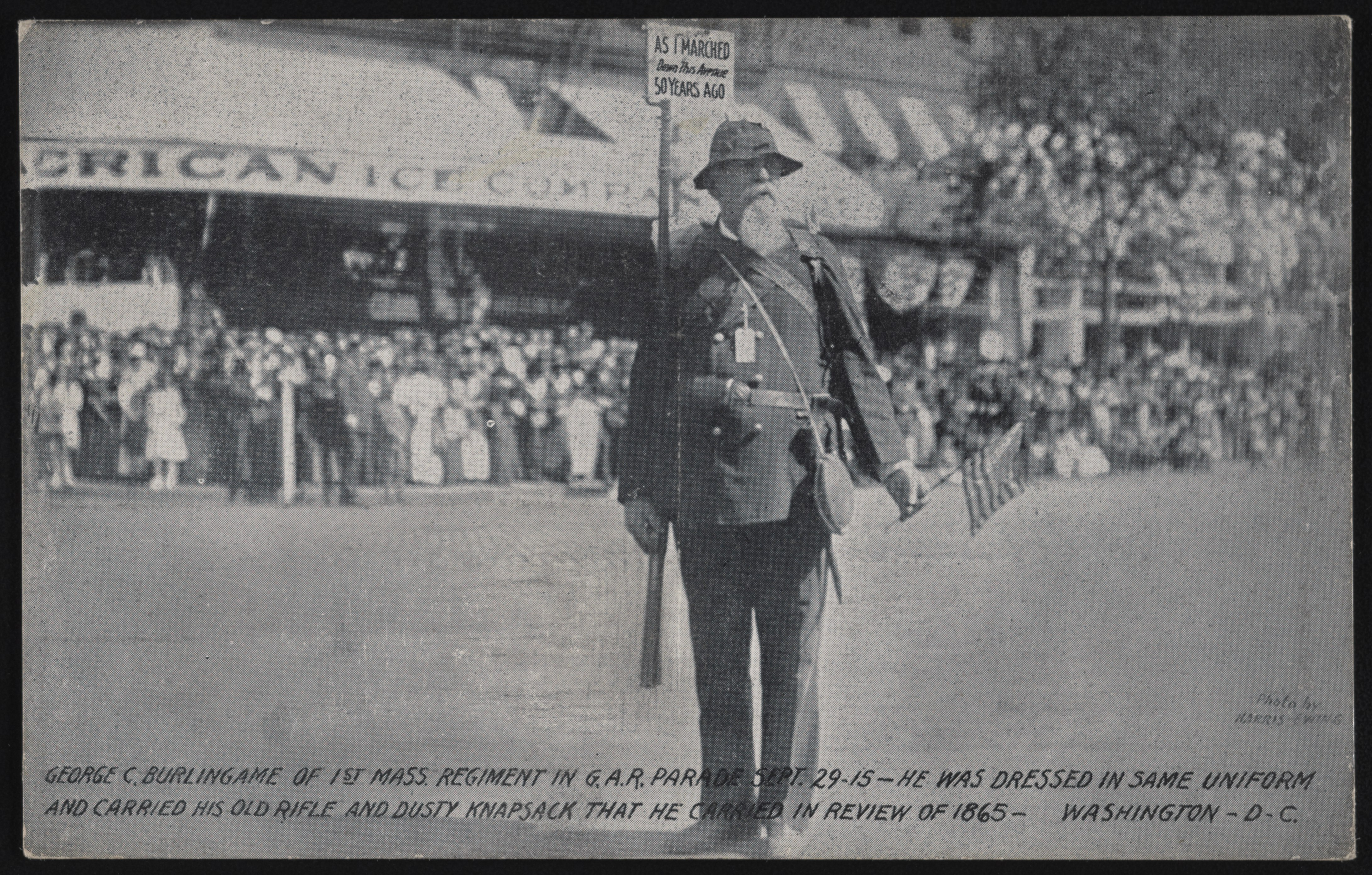 Title: George C. [i.e. G.] Burlingame of 1st Mass. Regiment in G.A.R. parade of Sept. 29-15 - he was dressed in same uniform and carried his old rifle and dusty knapsack that he carried in review of 1865, Washington, D.C. Abstract/medium: 1 photograph : photomechanical print ; sheet 8 x 14 cm (postcard format)